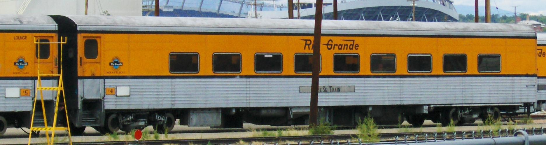 Passenger cars for the Ski Train.